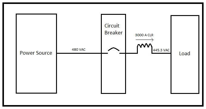 Current limiting reactor, schema